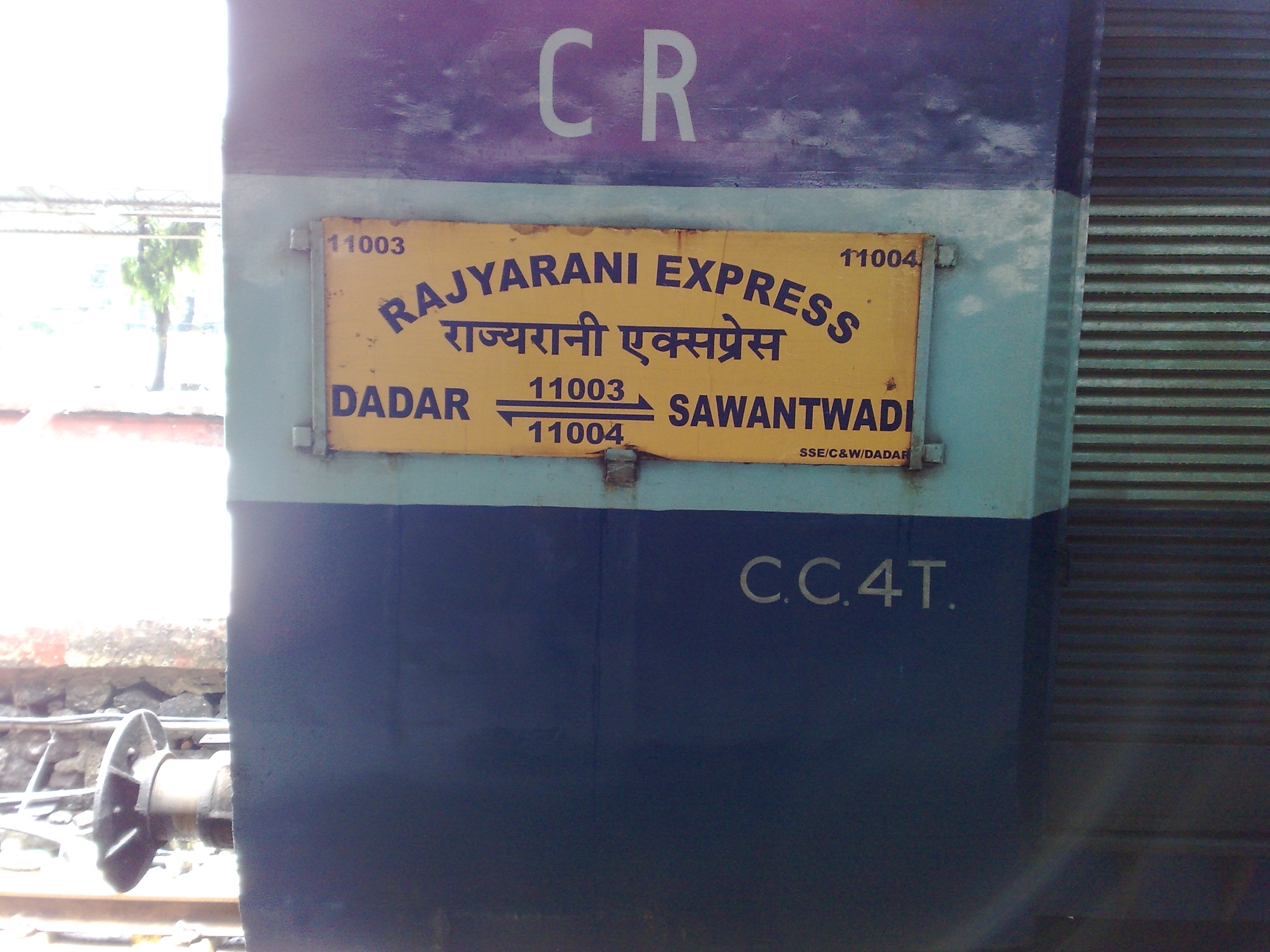 11003 Rajyarani Express